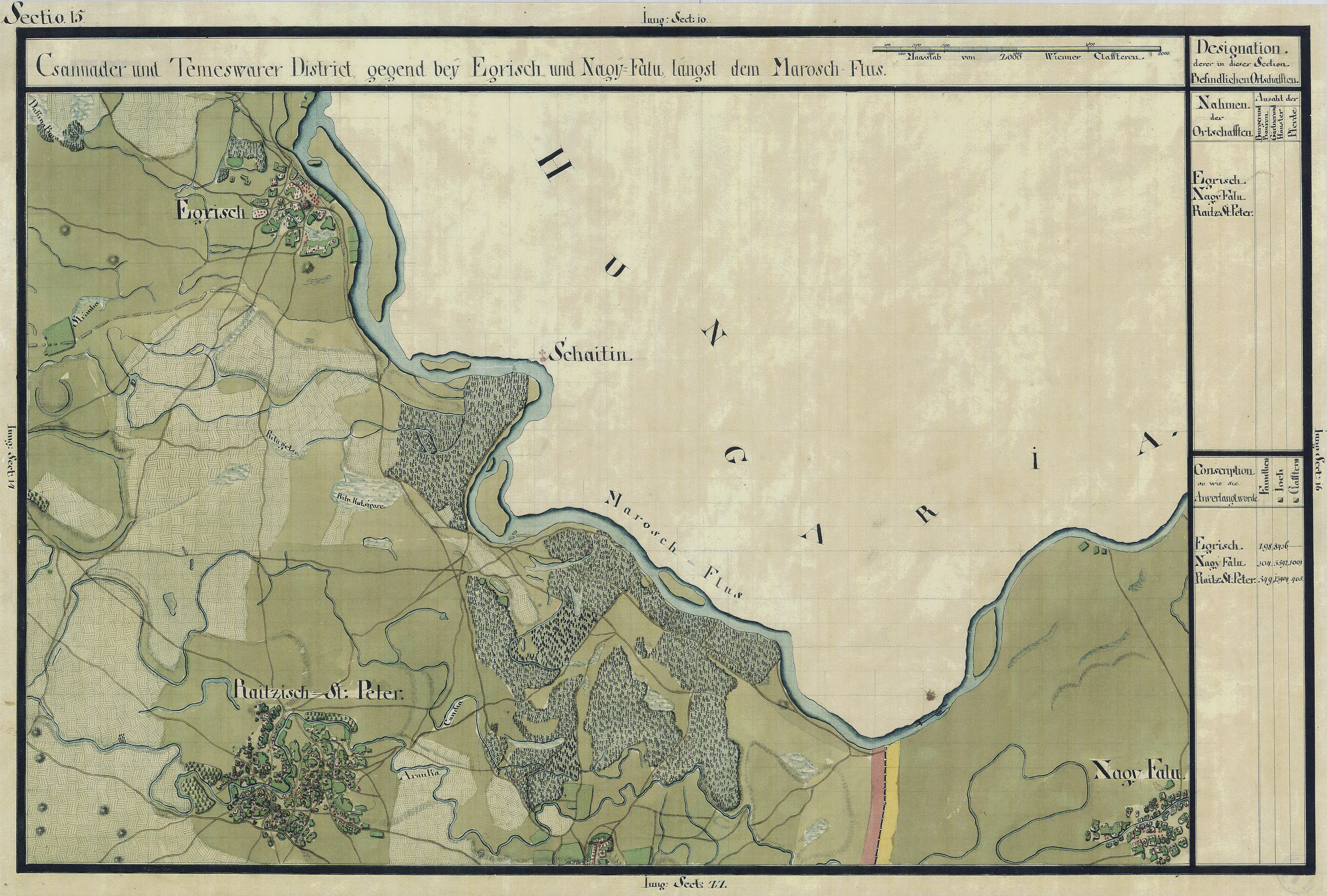 The Banat region in the cadastral maps: Josephinische Landesaufnahme, 1769-72. Josephinische Landaufnahme pg015